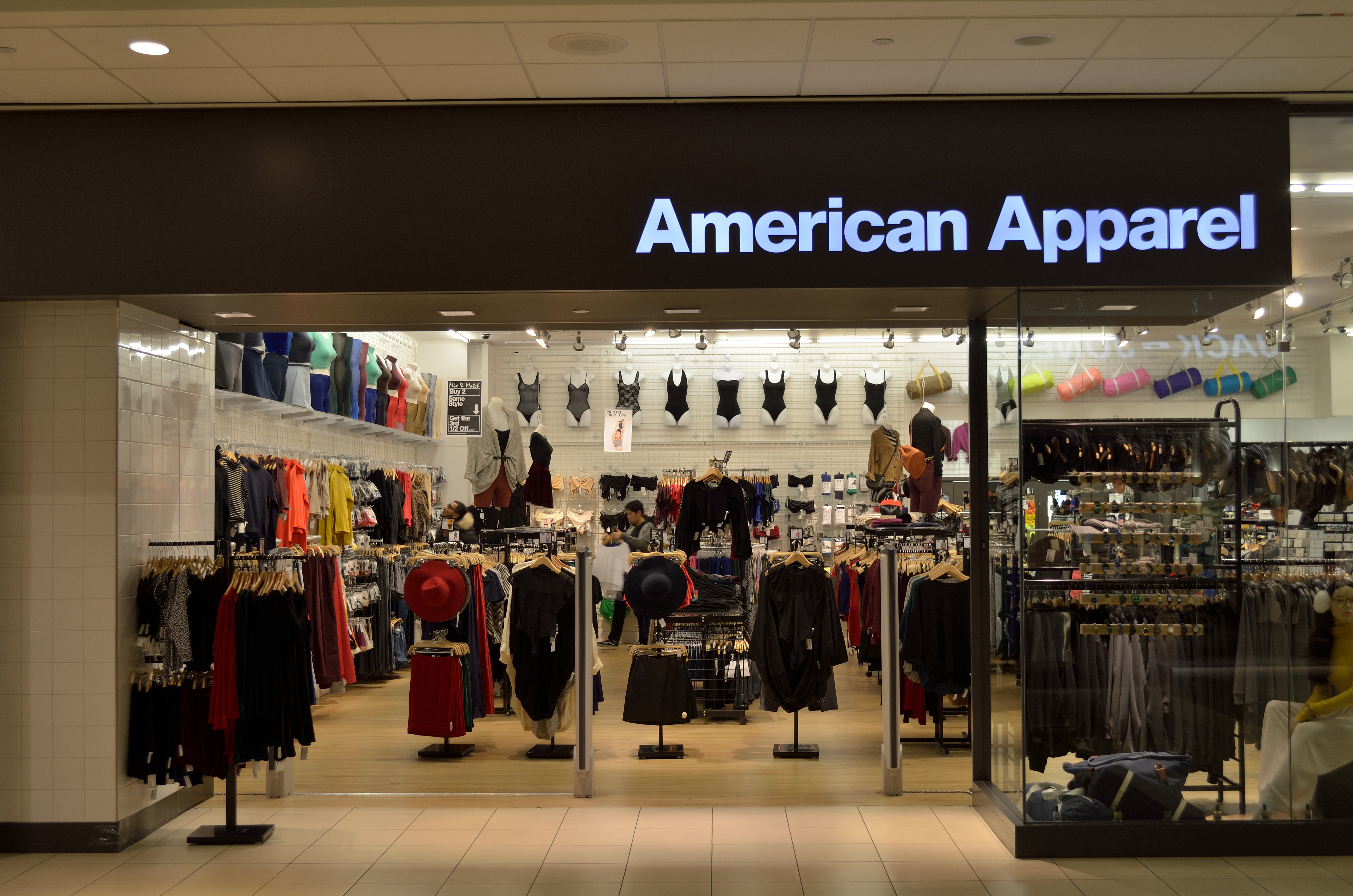 American Apparel at Promenade